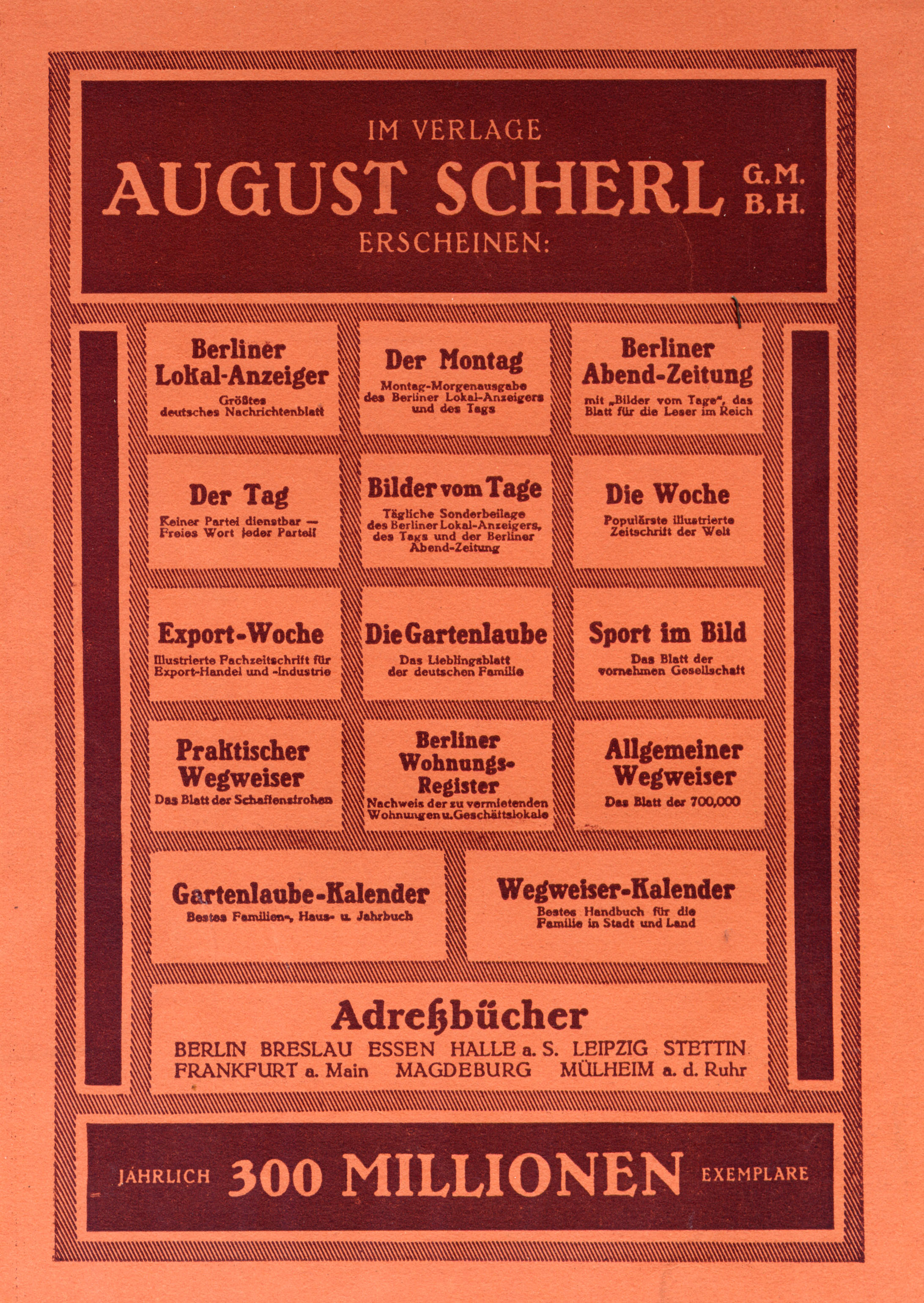 August Scherl was one of the most influential and successful publishers in Germany around 1900. This scan shows the back cover of his magazine "Die Woche" from 1914 with the imperium of his publications such as "Die Gartenlaube", a family magazine. The ad states: 300 million sold papers per year.